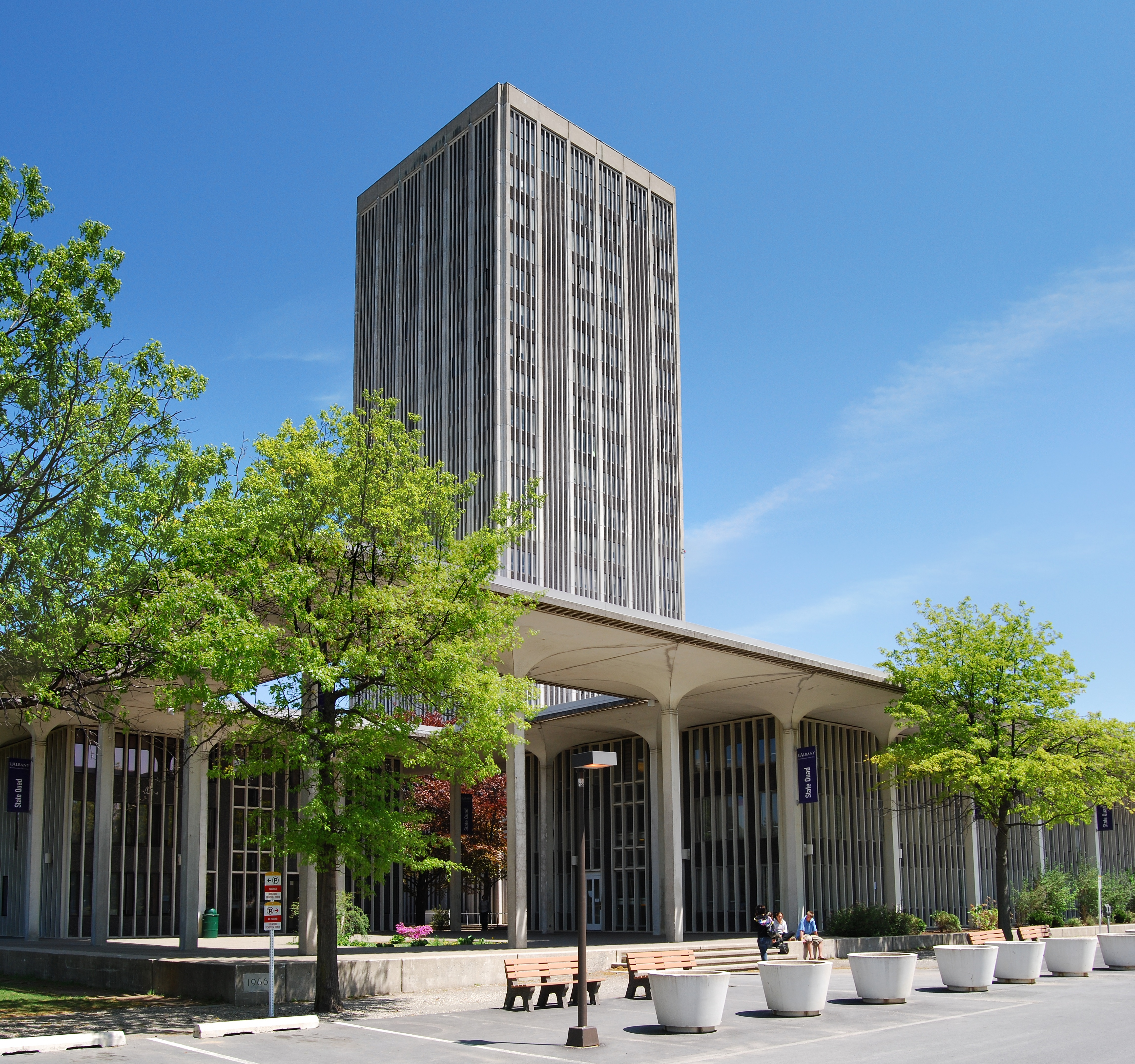 State Quad, one of four high rise student dormitories on the campus of the University at Albany, part of the State University of New York, located in Albany, New York, United States